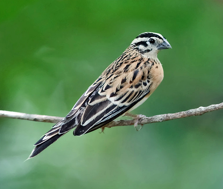 Eastern Paradise Whydah - female